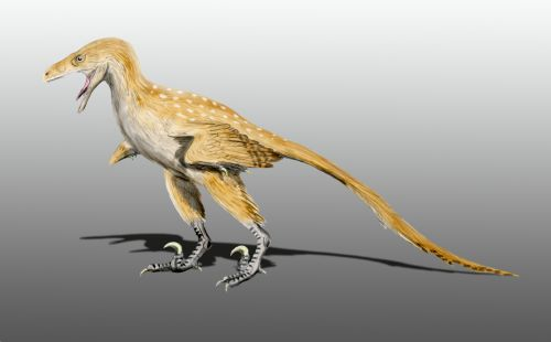 Bambiraptor